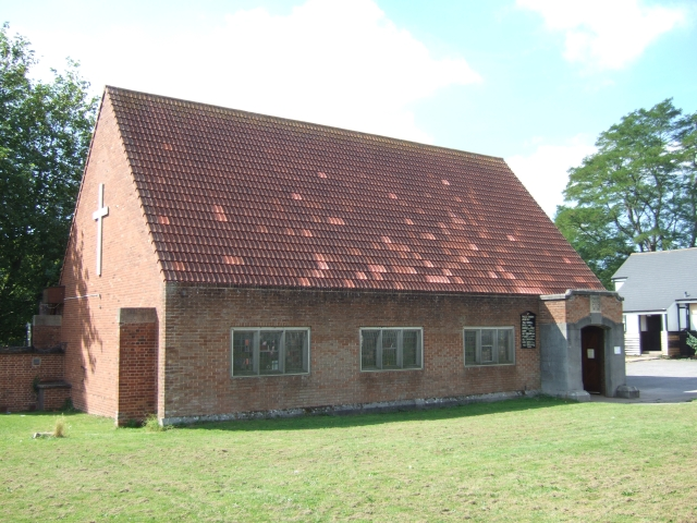 St Paul's Church, Burnthouse Lane, Exeter, Devon. This is a daughter church of the parish church of Heavitree